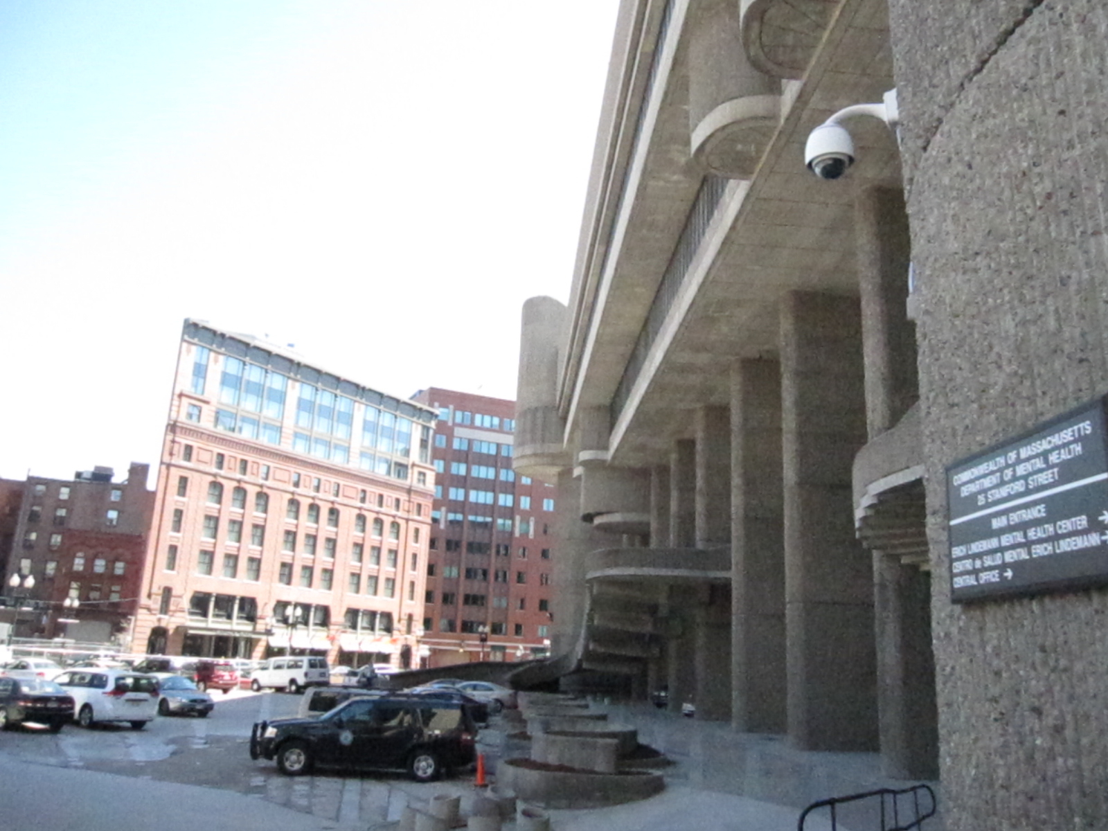 Boston, Massachusetts. Signage affixed to building: "Commonwealth of Massachusetts / Department of Mental Health / 25 Staniford Street / Main Entrance"